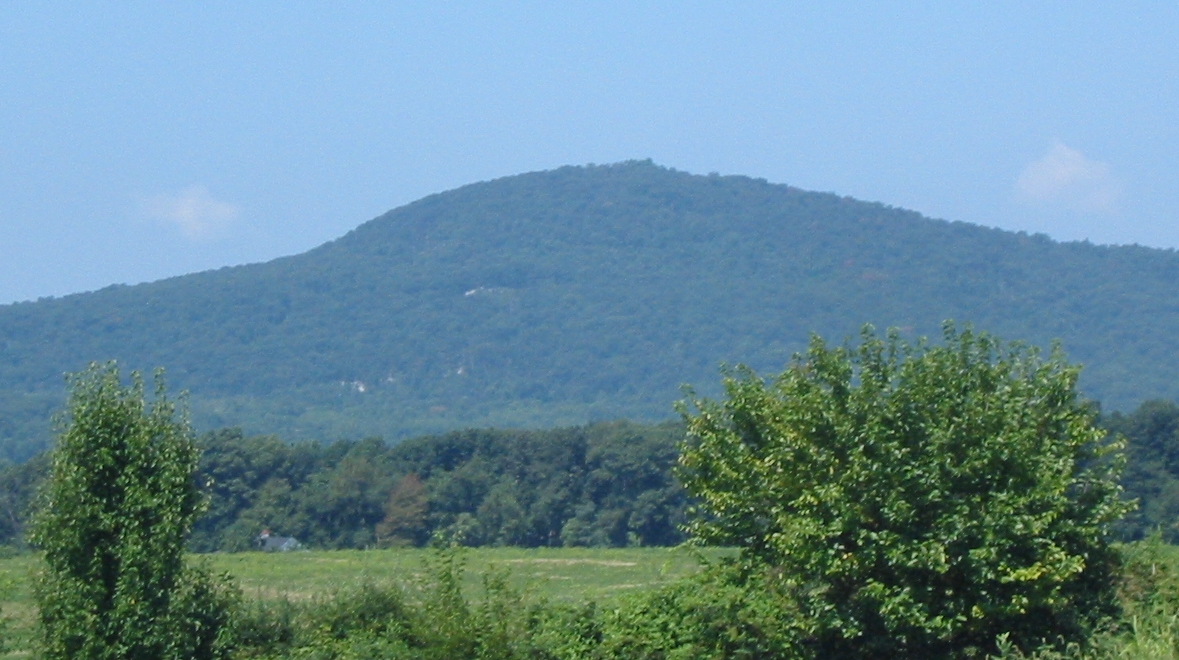 Sugarloaf Mountain, Maryland. I took this photo on 17 August 2005 from a lot near the Comus Inn, located 2.5 miles east of the mountain's summit.